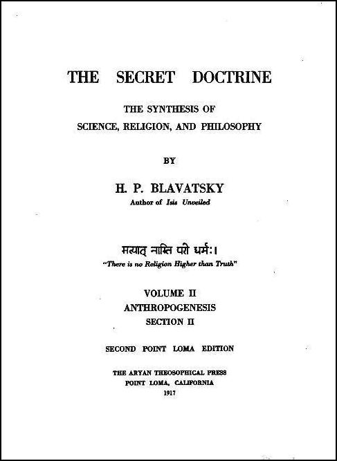 H. P. Blavatsky's Book The Secret Doctrine, vol. II. Title page to second Point Loma edition.